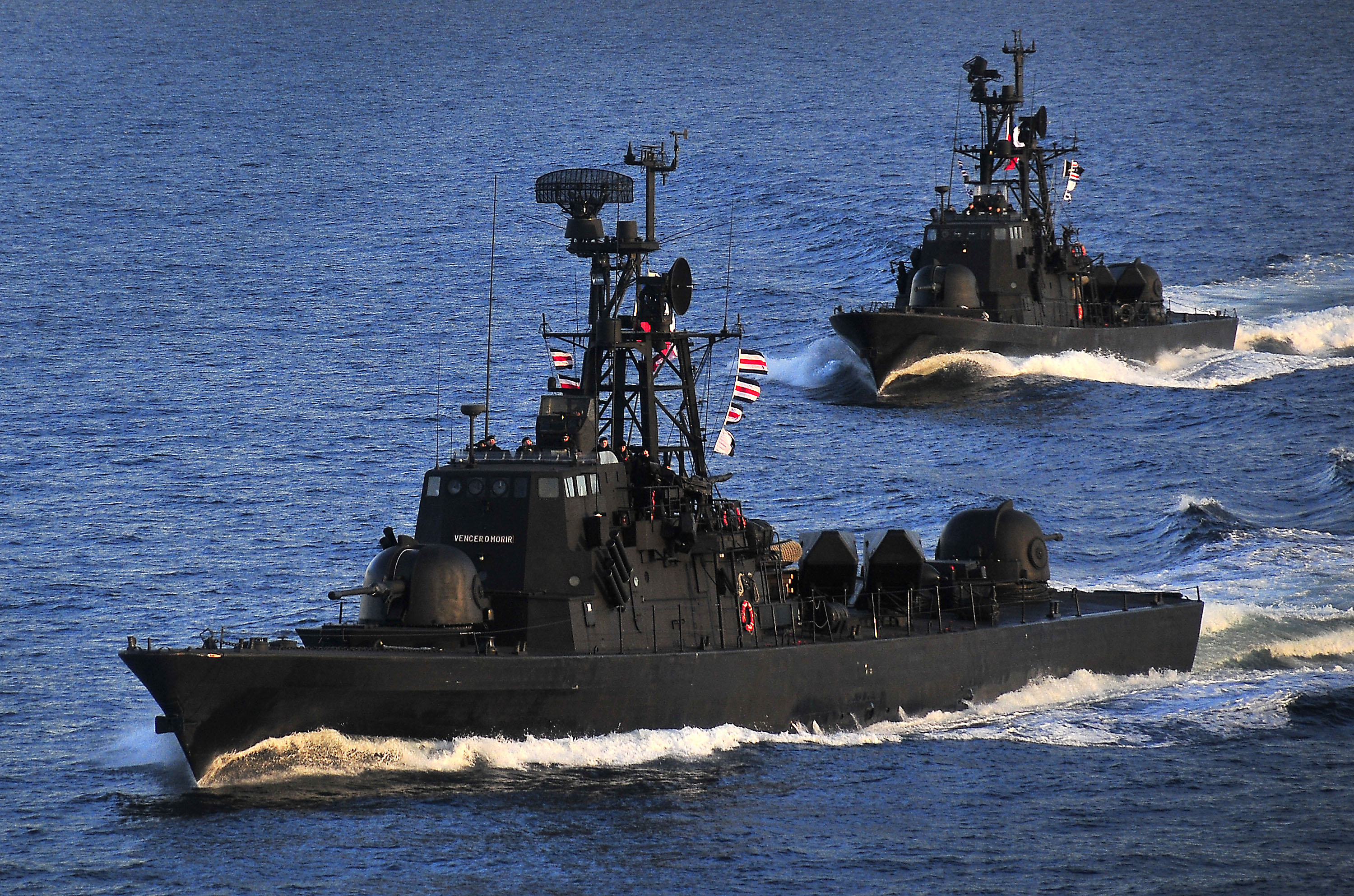 STRAIT OF MAGELLAN (March 15, 2010) The Chilean navy Sa'ar 4-class fast-attack craft Angamos and Casma perform tactical maneuvering exercises in the Strait Of Magellan. Carl Vinson is supporting Southern Seas 2010, a U.S. Southern Command-directed operation that provides U.S. and international forces the opportunity to operate in a multi-national environment. (U.S. Navy photo by Mass Communication Specialist 2nd Class Daniel Barker/Released)